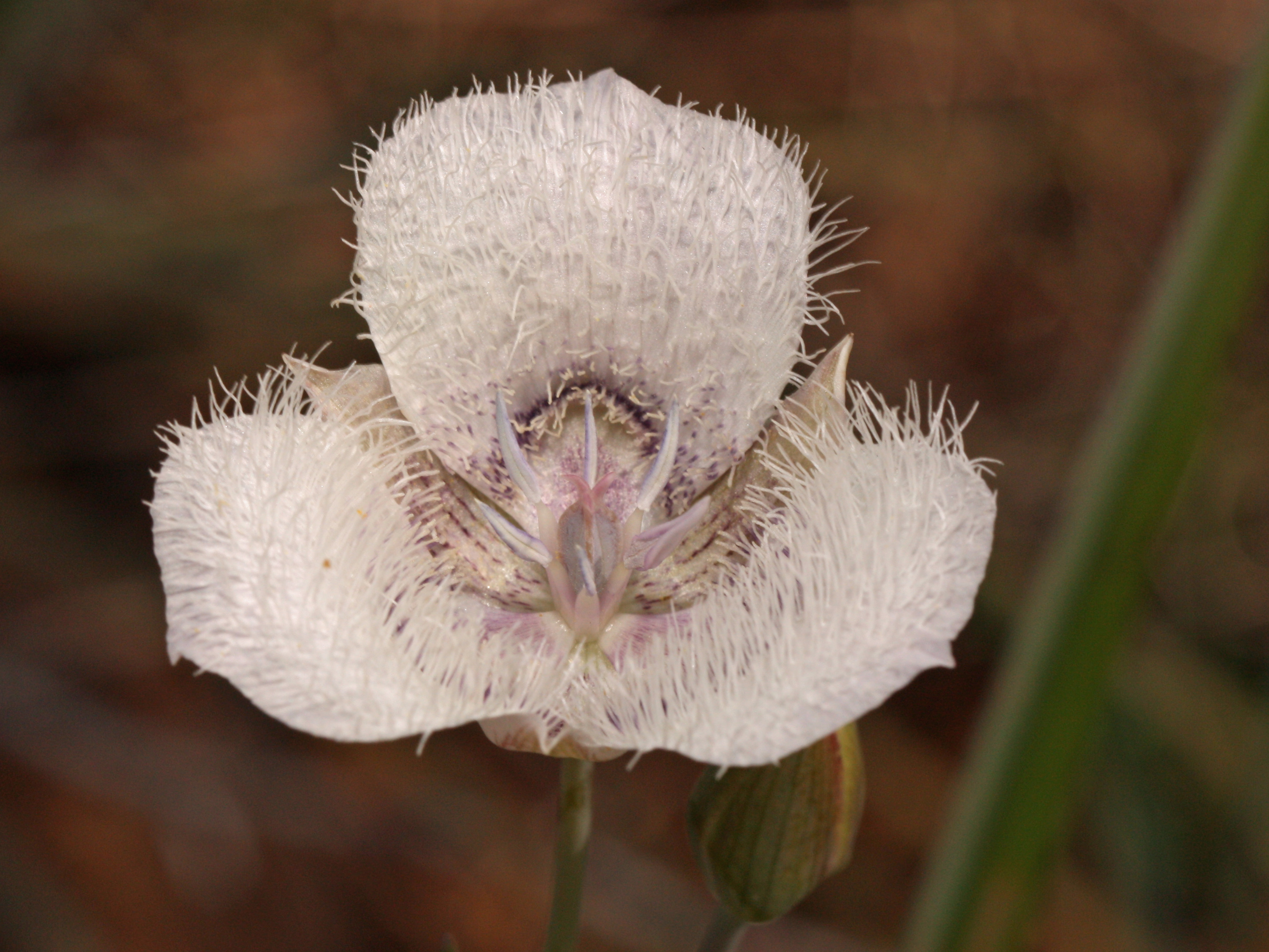 Tolmie's Mariposa-lily, Cat's-ears, Tolmie's Star-tulip Viewpoint location: Little Falls Trail, T. J. Howell Botanical Drive Viewpoint elevation: 407 meter (1334 ft) Location source: Garmin GPSmap 60CSx Location Datum: WGS84